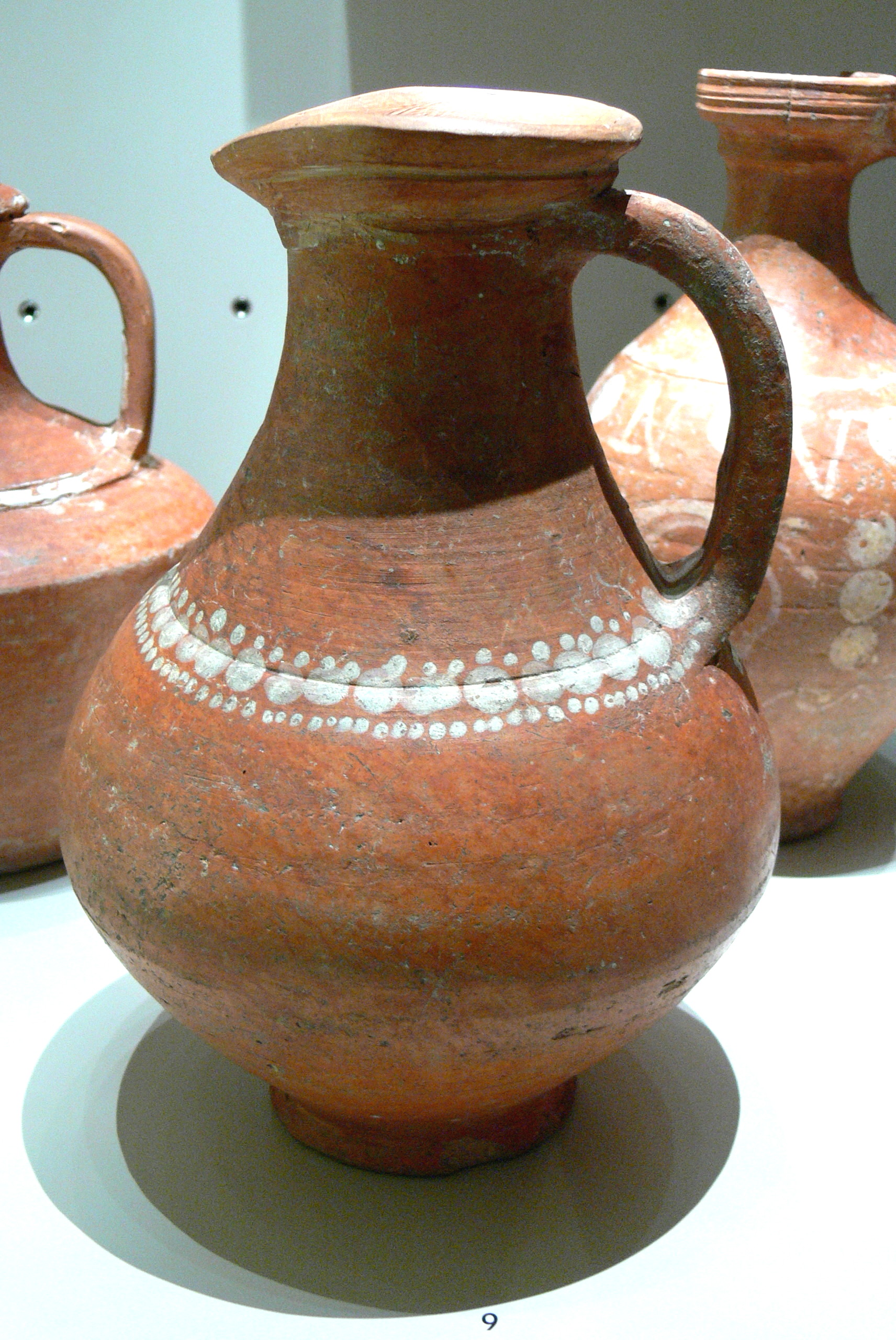 German National Museum ( Nuremberg / Germany ). Ancient Roman one-handled clay jug, 4th century AD, from Andernach ( Rhineland-Palatinate )